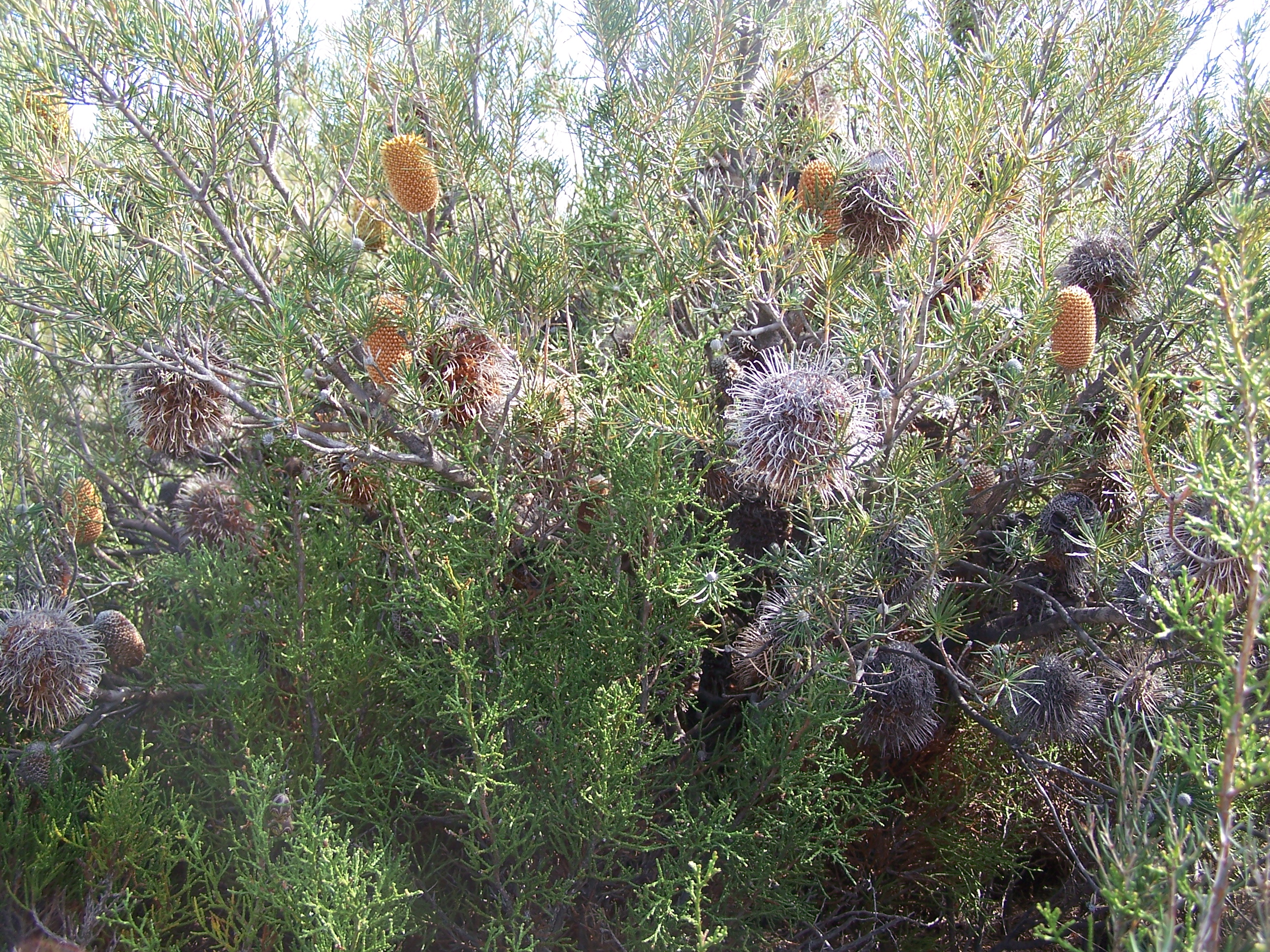 Images of Banksia telmatiaea taken in the Yule Brook Reserve, Kenwick Western Australia